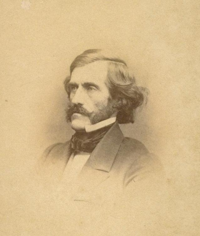 The image of US Navy Commodore Robert F. Stockton (1795–1866)